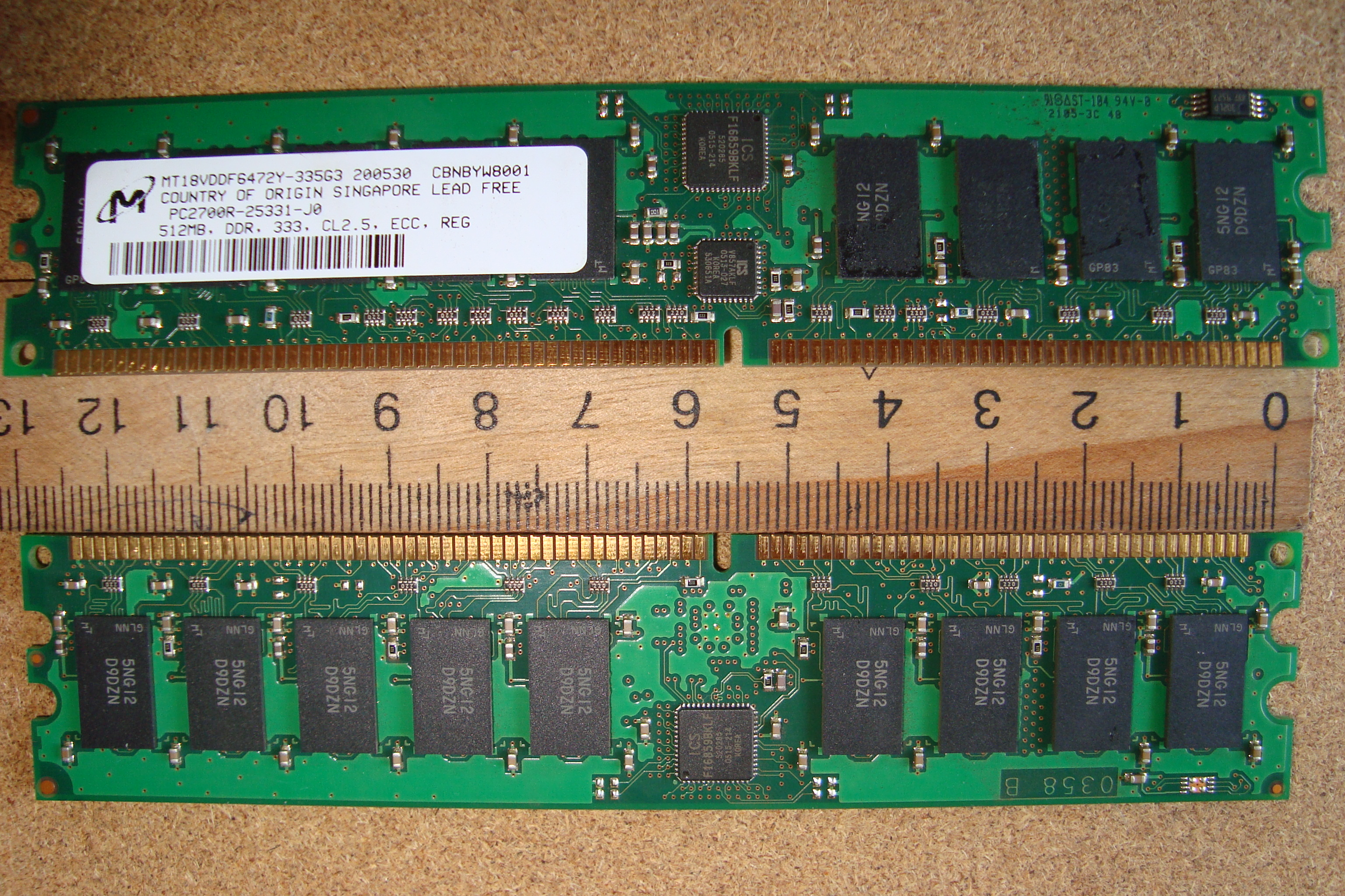 Micron PC2700 DDR ECC Registered memory.